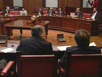 Gibraltar House of Assembly (parliament) - Inside the chamber